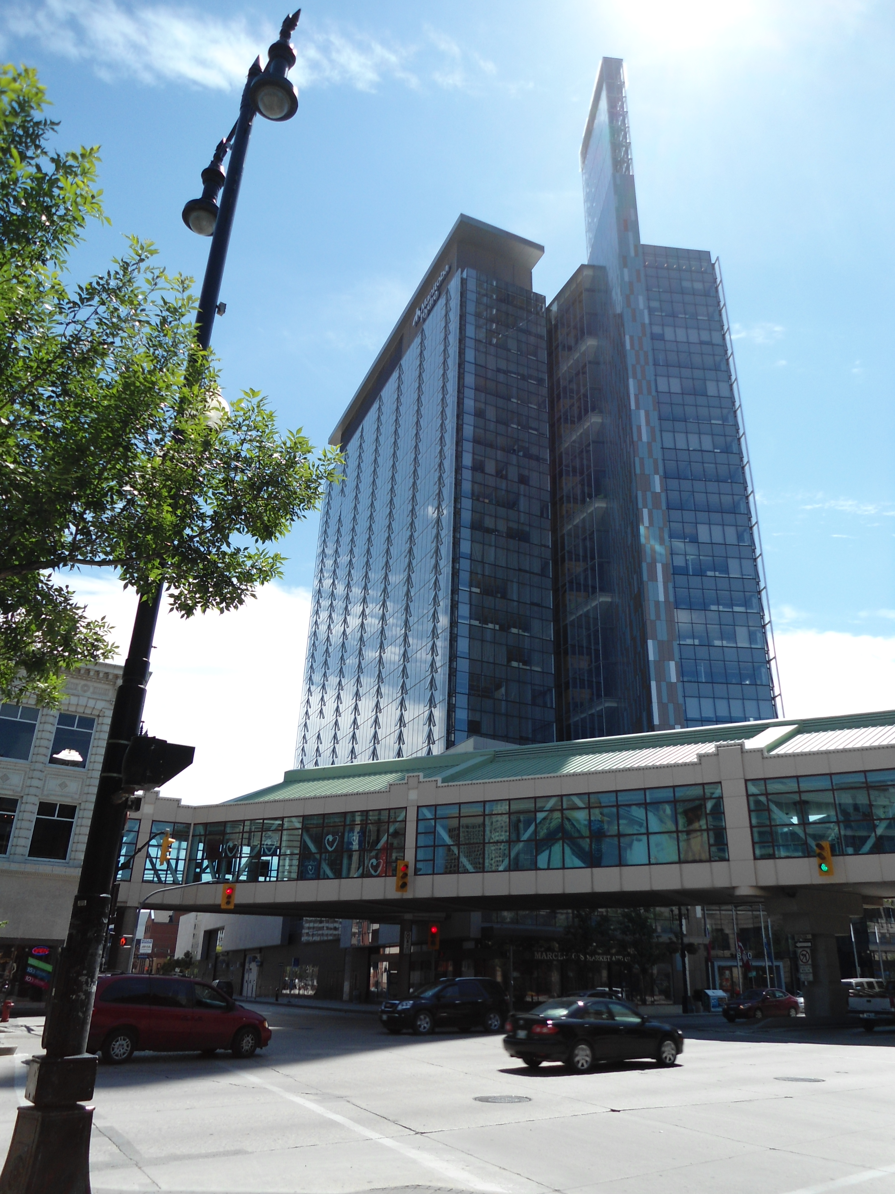 One of fourteen skyways in Winnipeg, over Portage Avenue. The LEED Platinum-certified Manitoba Hydro Building stands in the background.